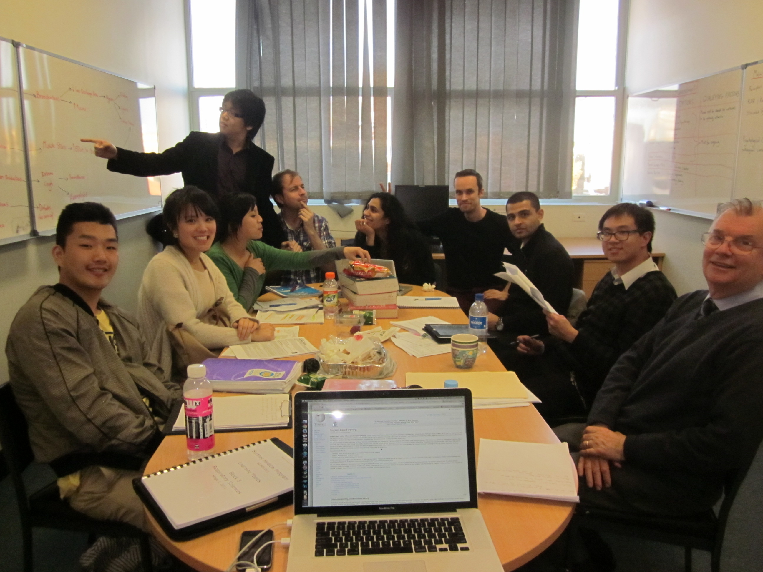 An awesome PBL group.